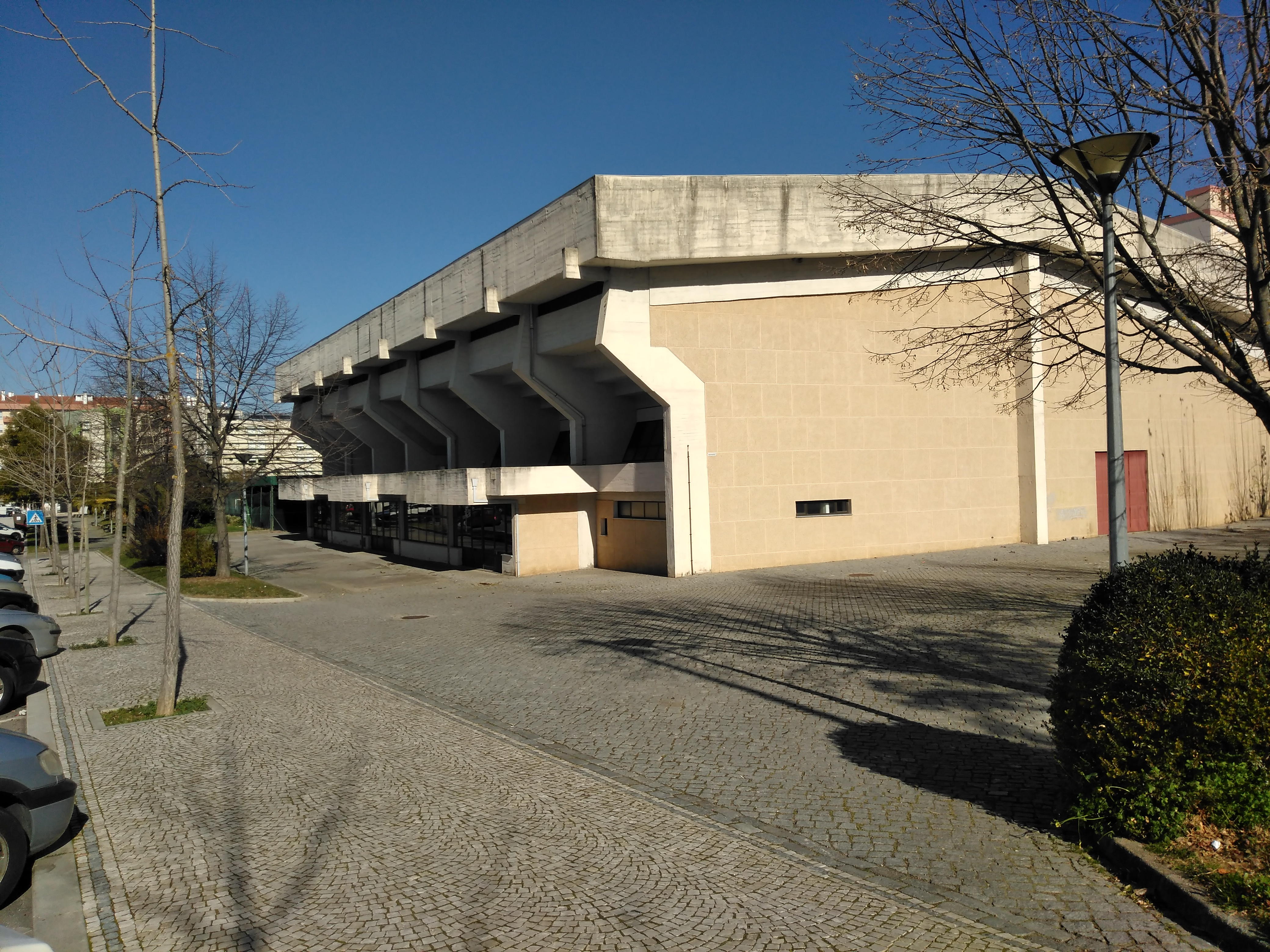 Pavilhão Municipal